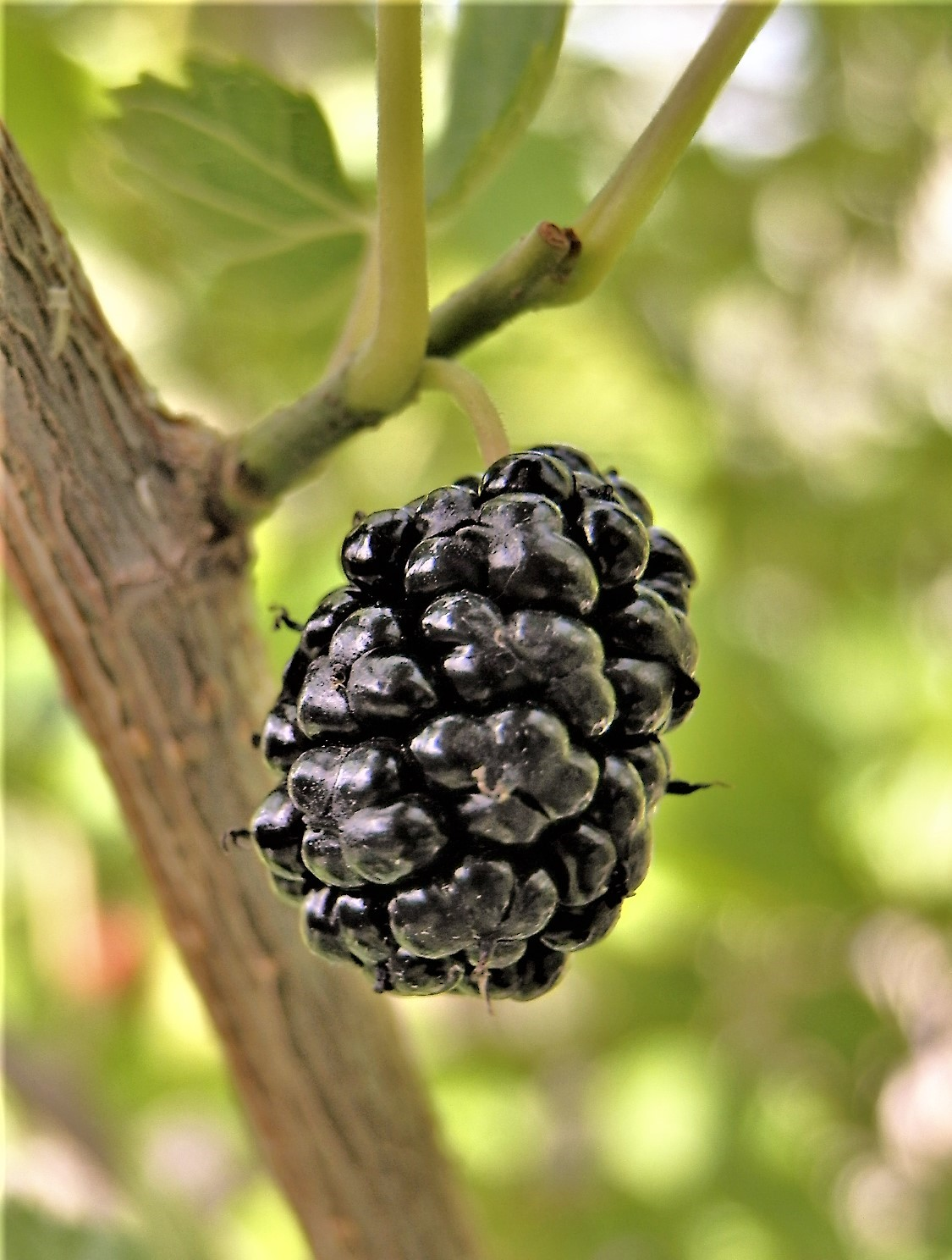 Black mulberry fruit (Morus nigra), Yerevan